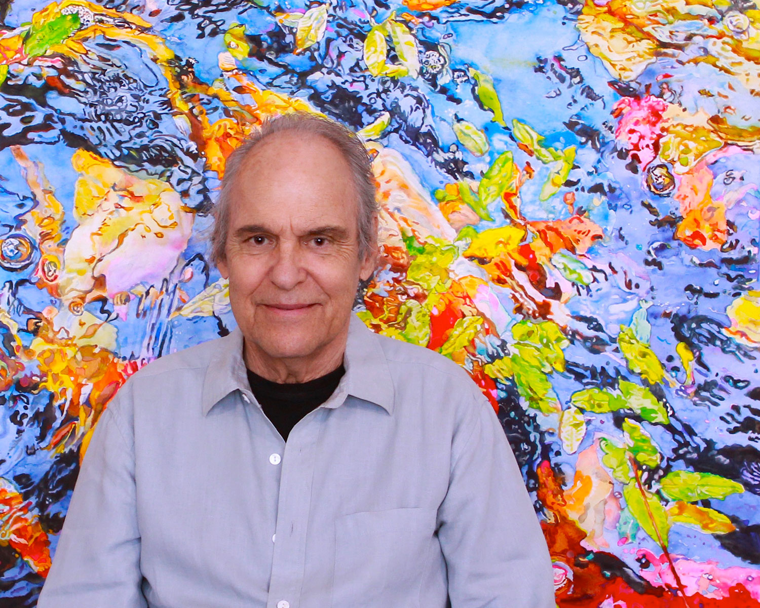 Portrait of watercolor artist Joseph Raffael in front of one of his paintings